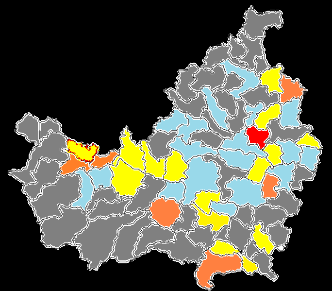 Hungarian minority in Cluj County (Romania), according to the 2011 census, by communes (red = hungarian majority over 80%, orange = hungarian majority between 50 - 70%, yellow = hungarian minority over 20%, blue = hungarian minority between 10 - 20%, grey = hungarian minority under 10%).